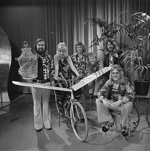 Teach-In in AVRO's TopPop (Dutch television show) in 1974